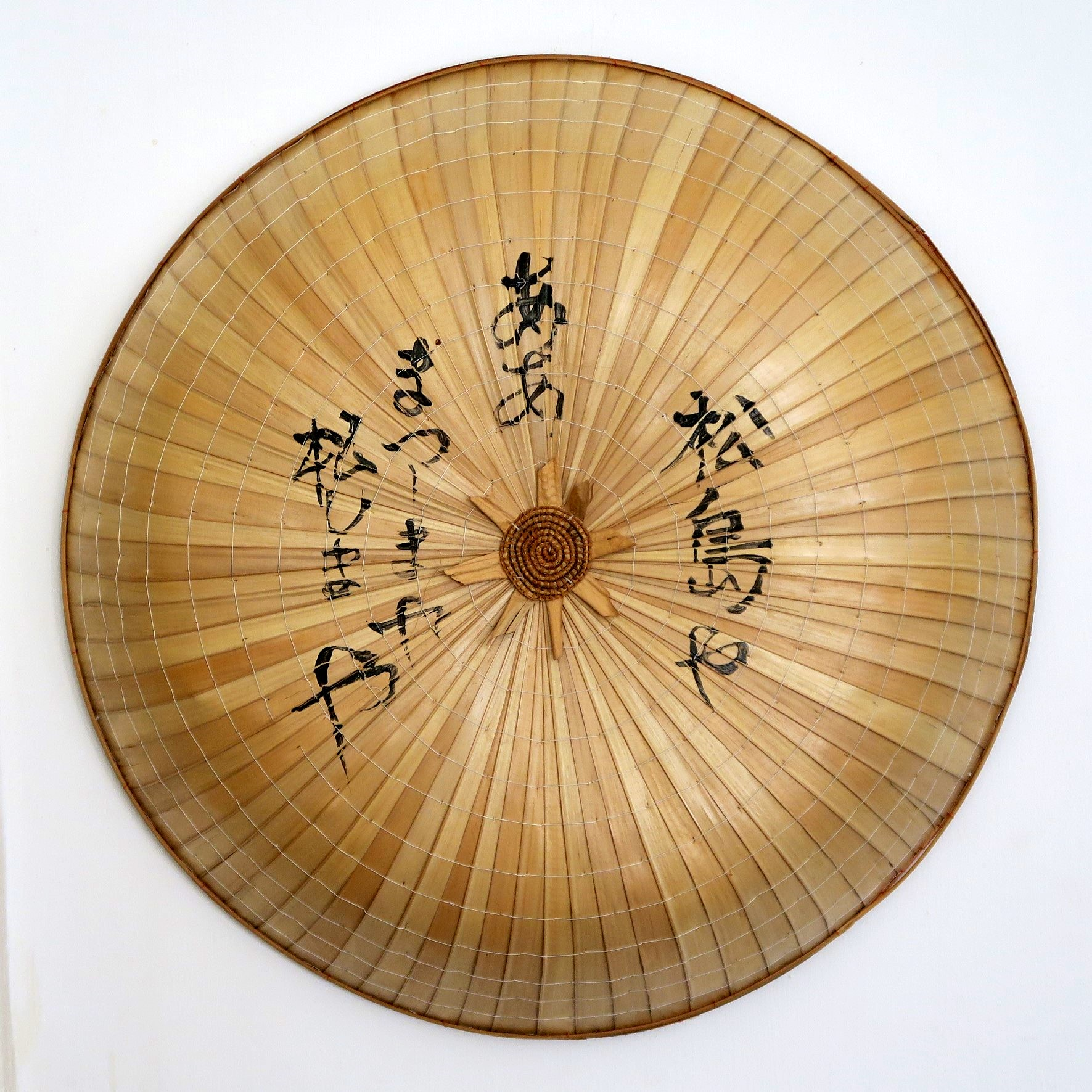 Straw-hut with Text: Matsushima-ya | yaa Matsuhima ya |Matsushima-ya